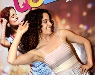 Kangana Ranaut at promotional event for QUEEN